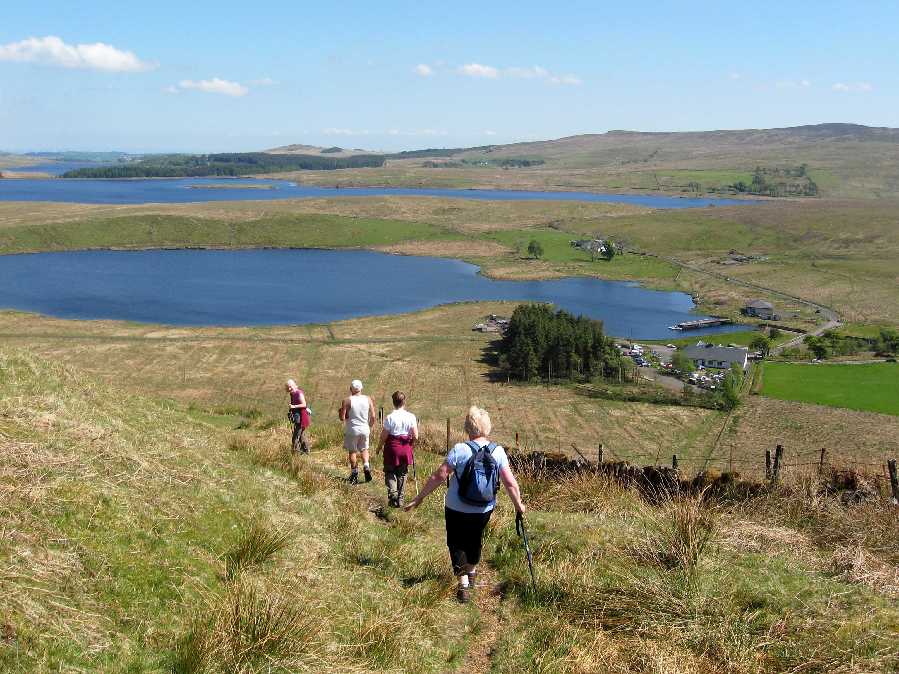 Loch Thom, view from Hillside Hill down over compensation loch and Greenock Cut Centre at Cormalees Bridge.